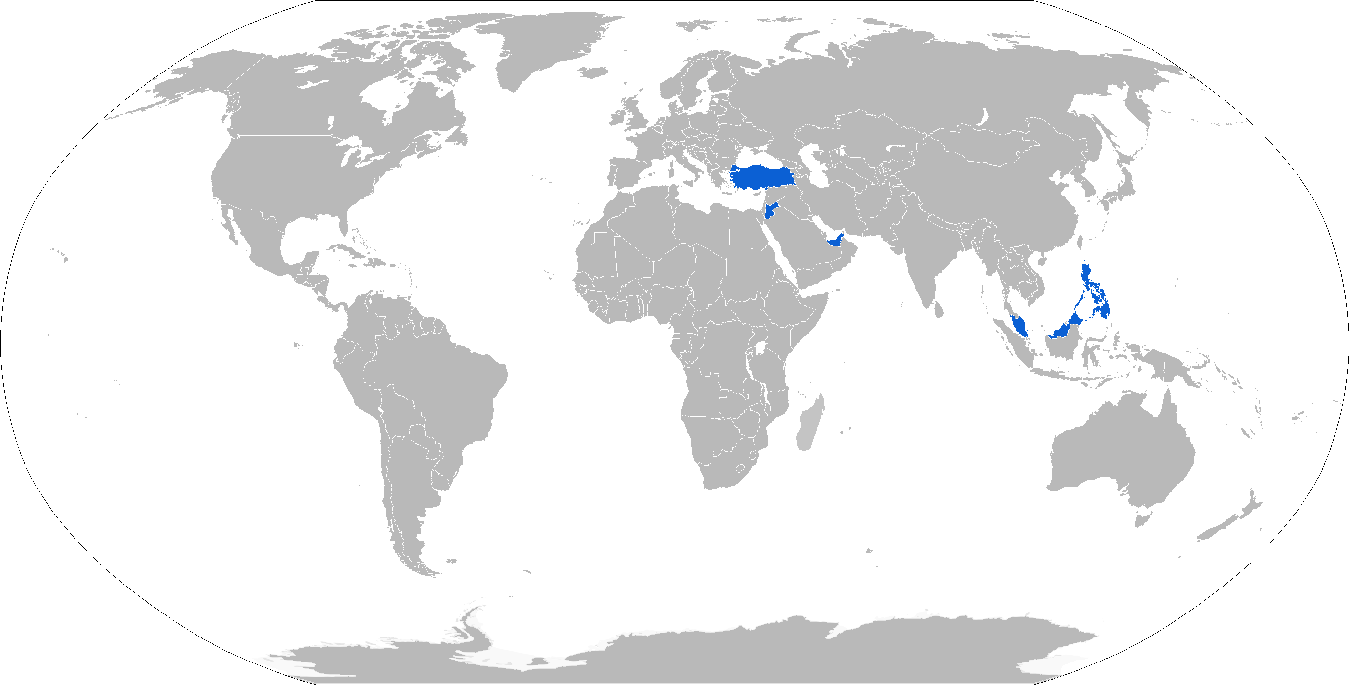 Map of FNSS ACV-15 operators in blue